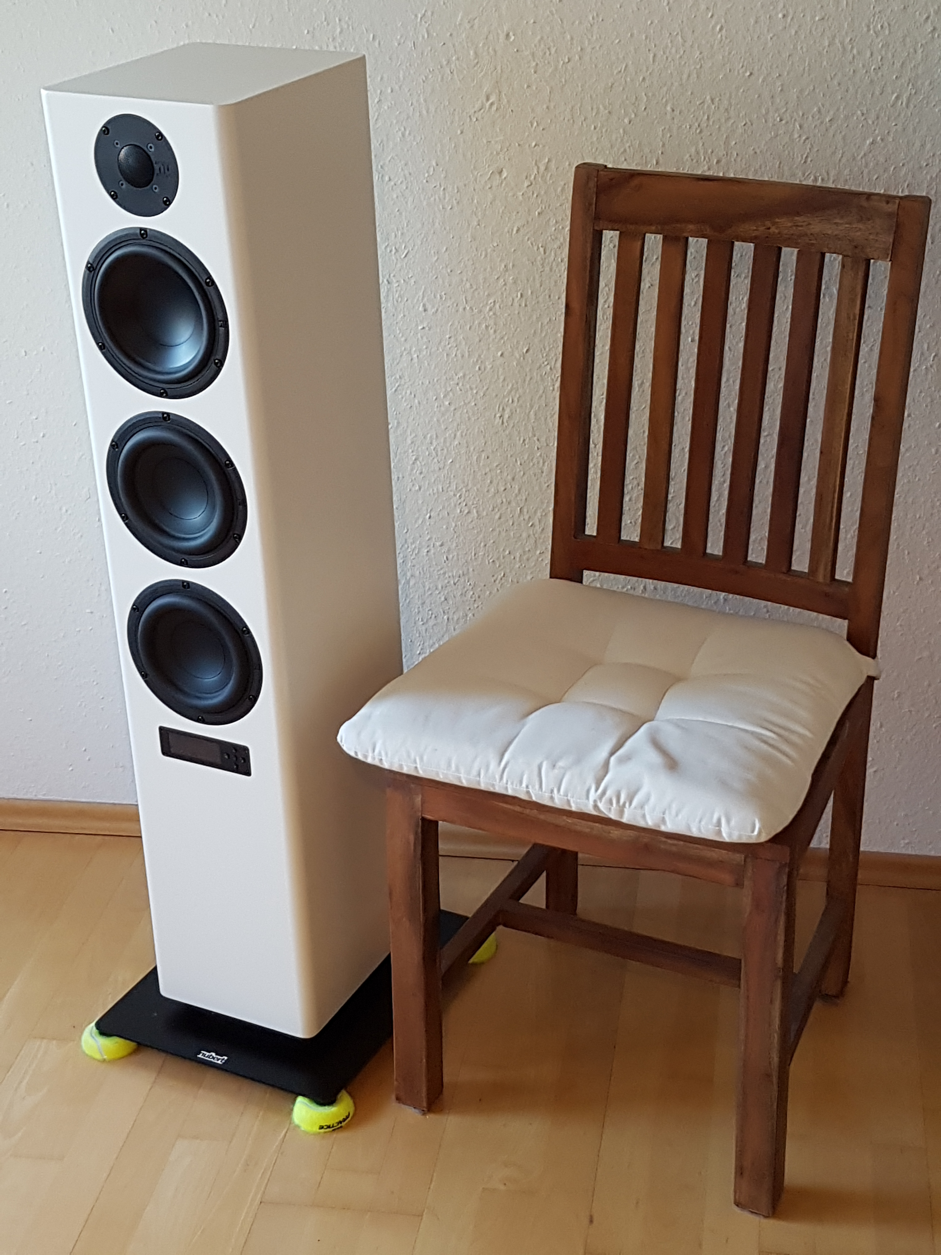 3-way active Speaker Nubert nuPro A-700; chair for size comparison